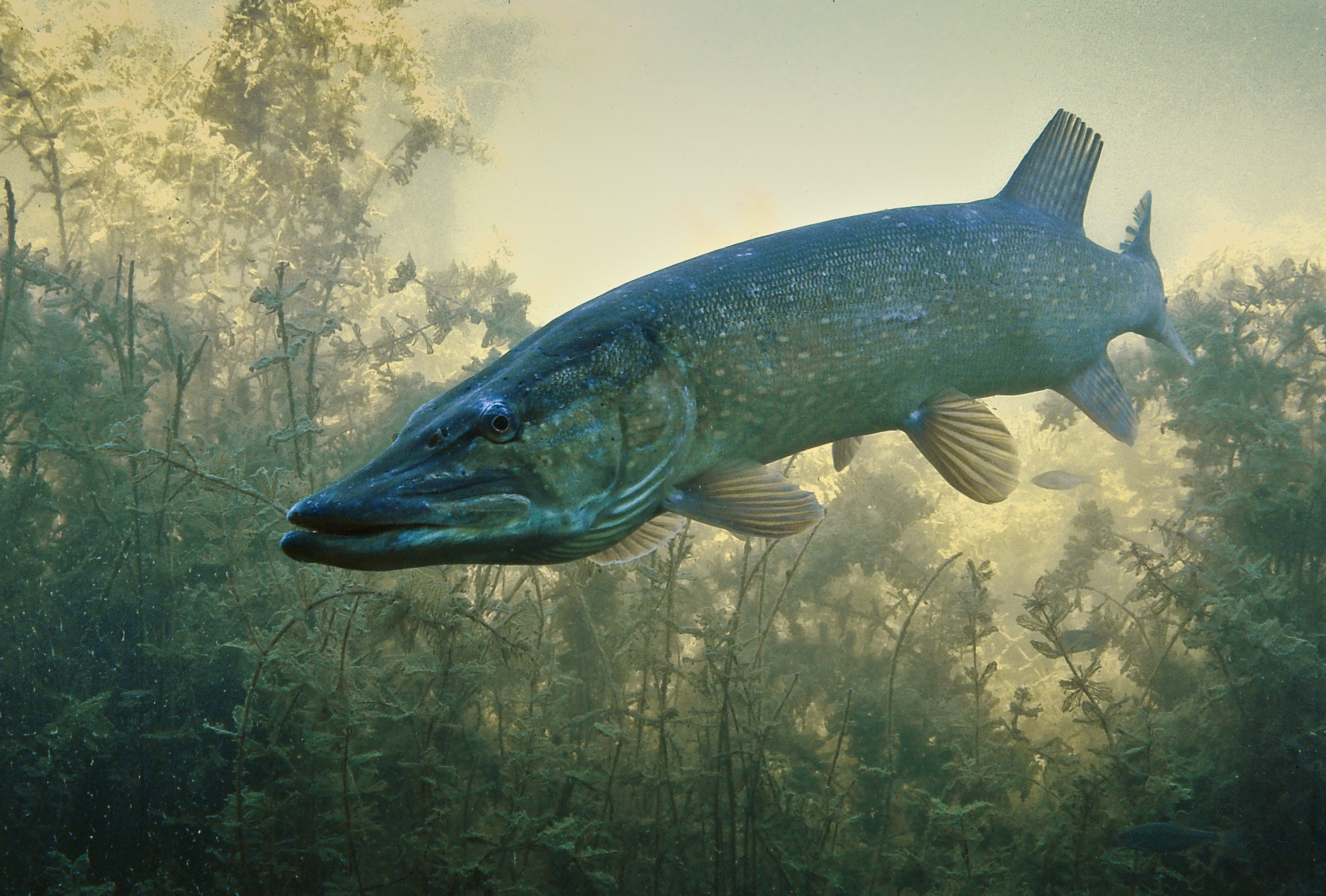 Pike. Photographed in Bavaria, Germany. This was taken in the Umwelt Garten in Wiesmühl an der Alz. Great place to vist, their website is here